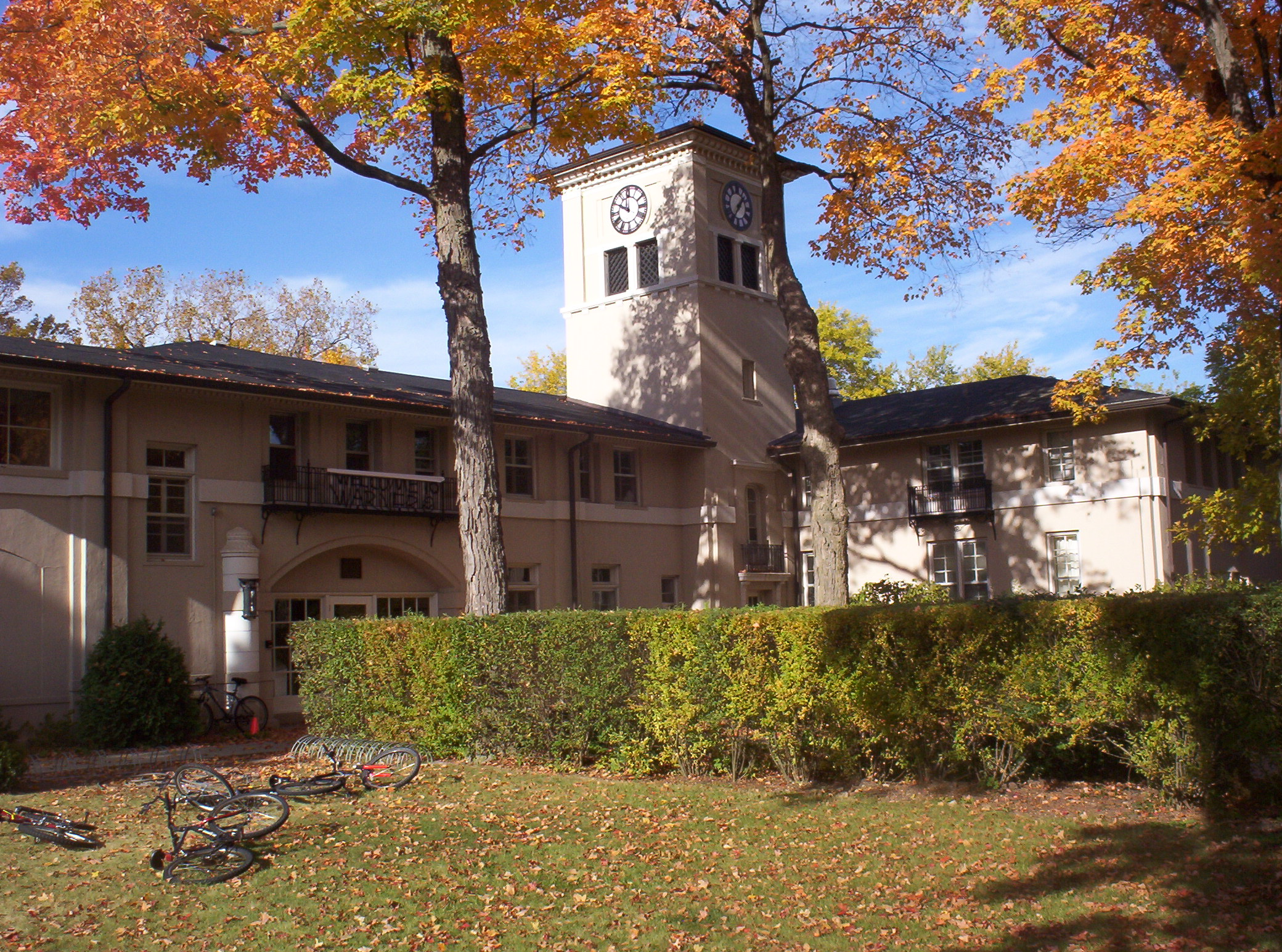 Photograph of Warner House at Lake Forest Academy. I took this photo myself and hereby release all rights. Dylan 16:50, 18 December 2005 (UTC)